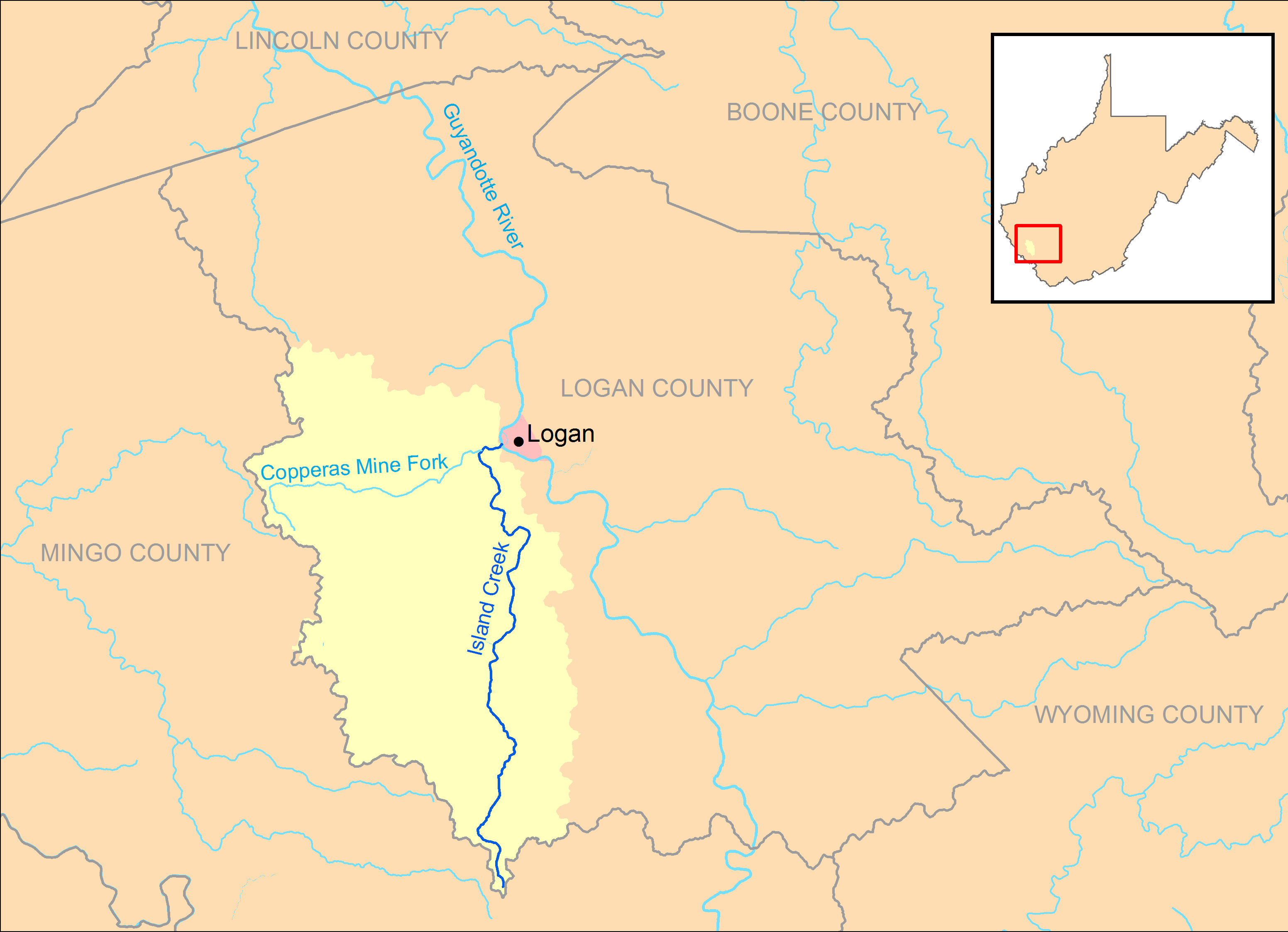 A map of Island Creek and its watershed (USGS HUC-12 050701010402 and 050701010401; or HUC-10 0507010104) in Logan County, West Virginia.